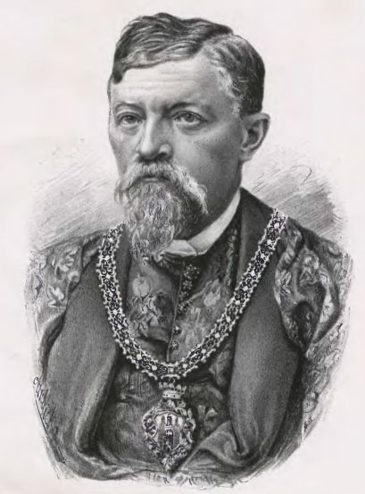 Prezydent Lwowa (1887-1897)